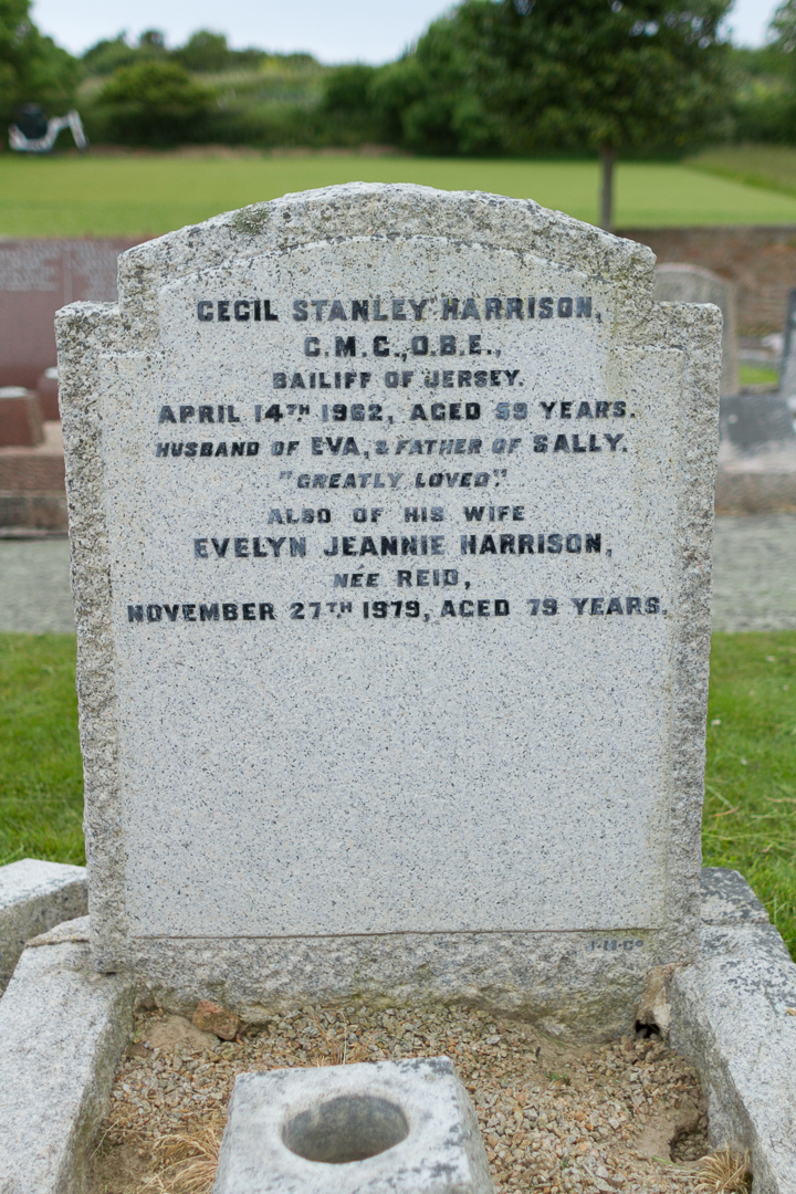 Gravestone of Cecil Stanley Harrison, former Bailiff of Jersey, and his wife Evelyn Jeannie Reid.